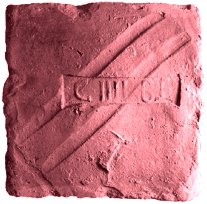 Brick stamp of Cohors IIII Baetica